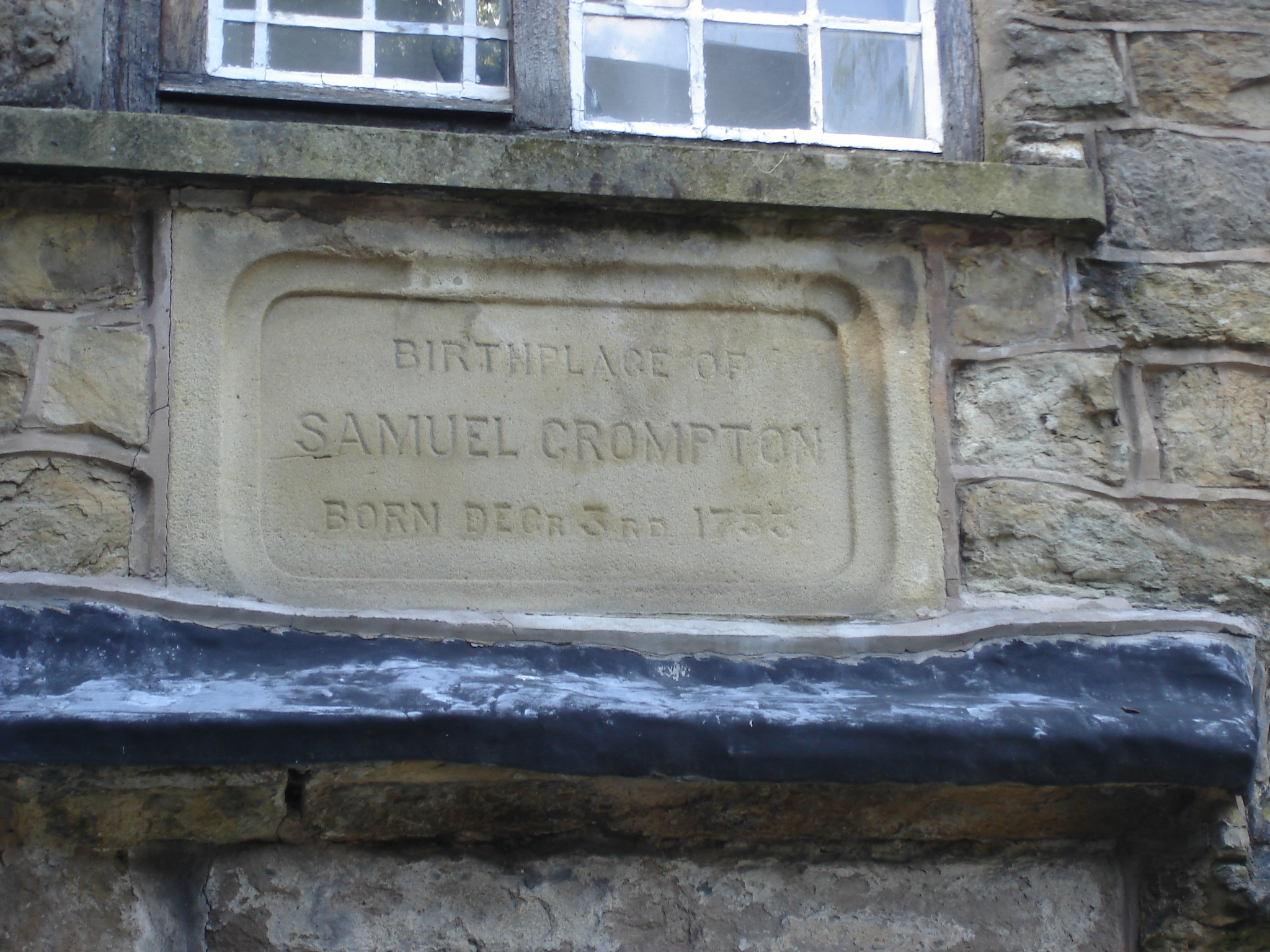 Stone panel in 10, Firwood Fold, Bolton acknowledging that Samuel Crompton was born in the house 3 December 1733.